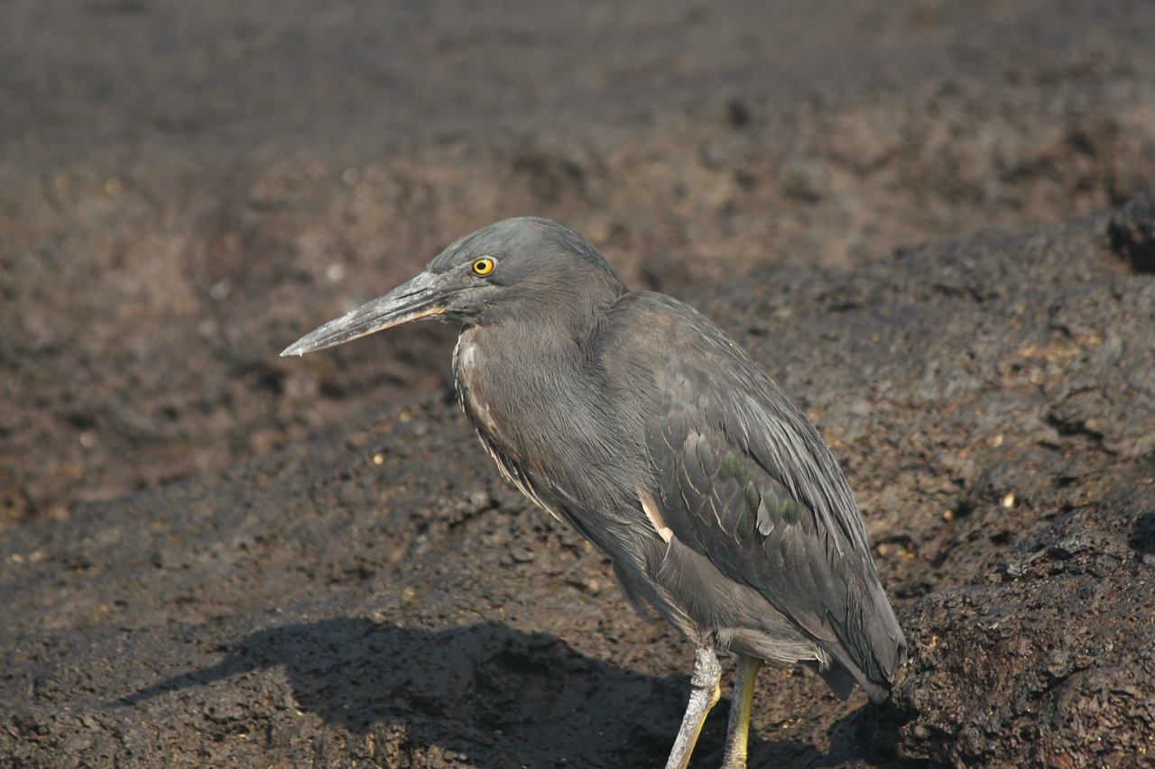 Lava heron on Santiago Island, Galapagos, taken by Tad Boniecki on 27 Feb 2007